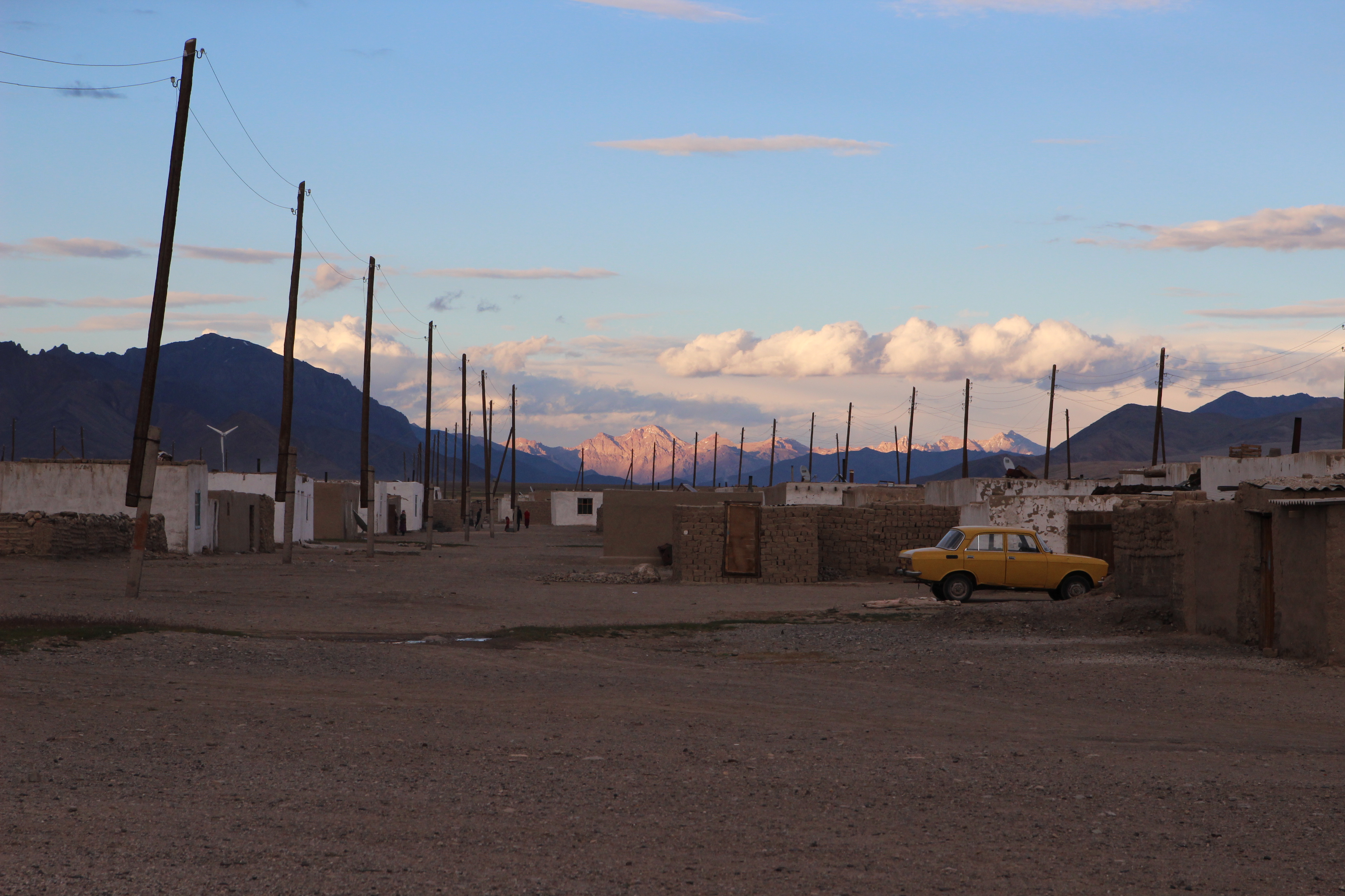 the town of Alichur in Tajikistan situated along the Pamir Highway